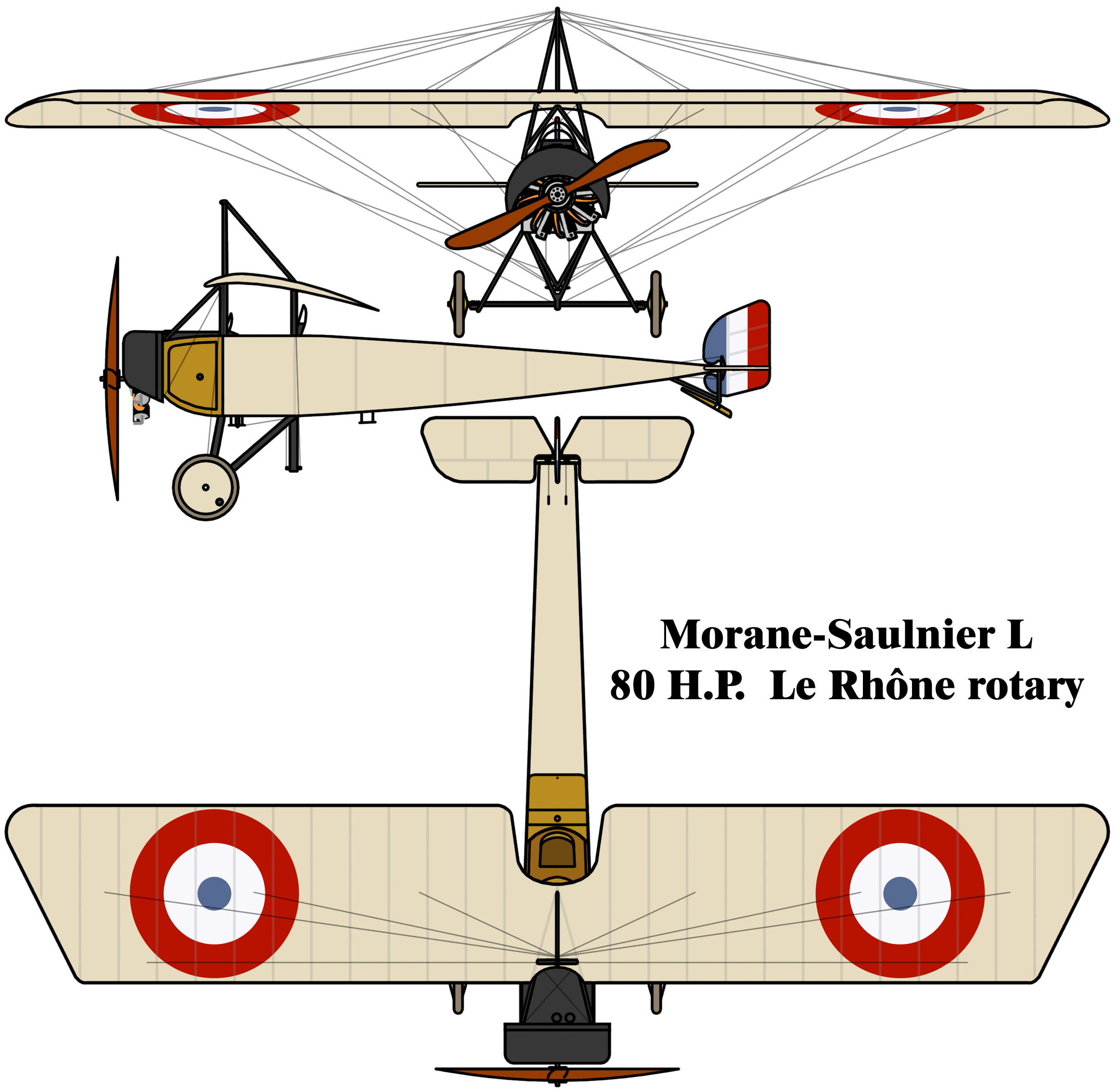 Morane-Saulnier L French First World War two seat reconnaissance parasol monoplane drawing